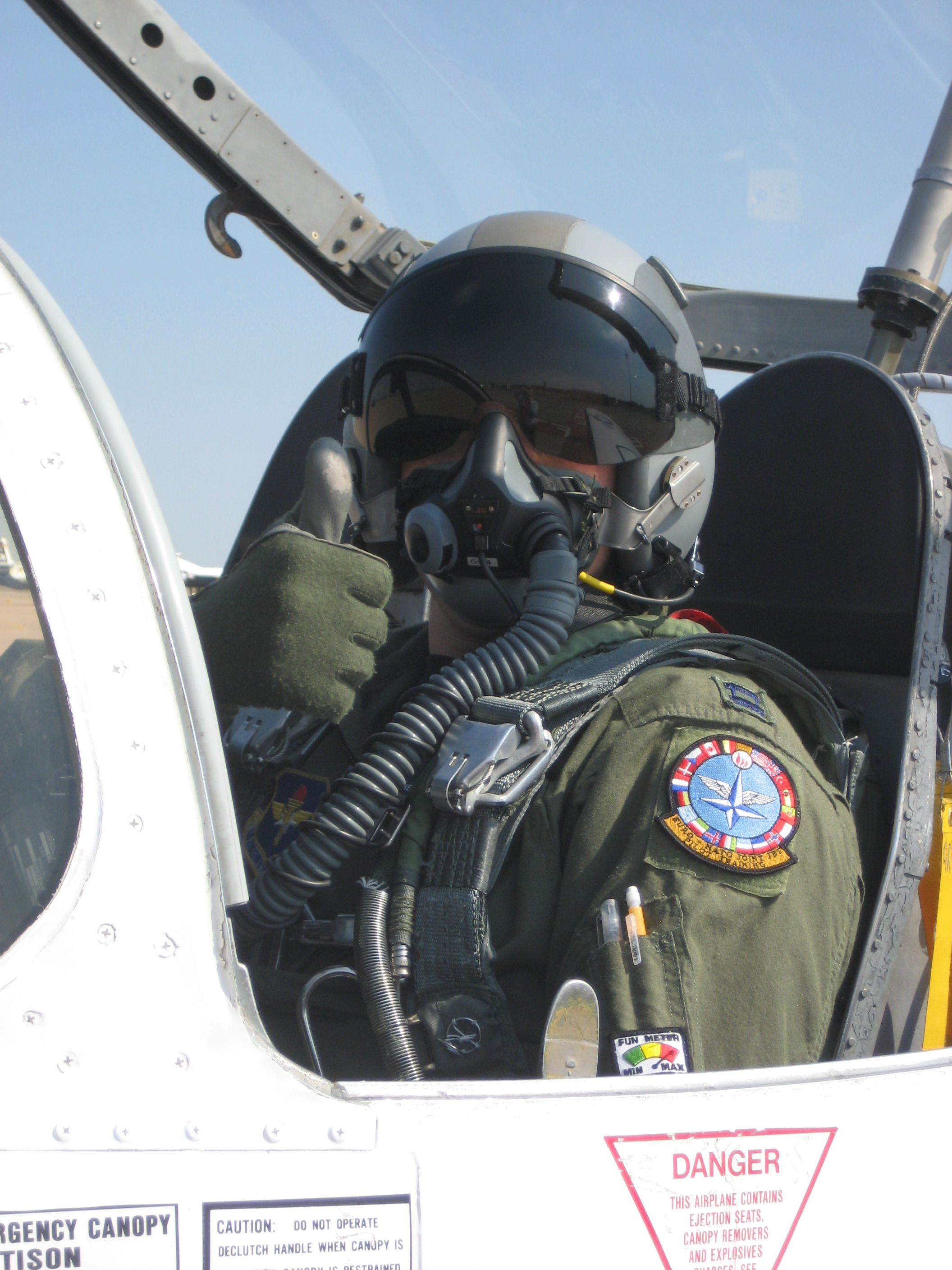 Author (User:BQZip01) in a jet wearing appropriate flight gear to include an MBU-20 oxygen mask, helmet, flight suit, flight gloves, and parachute.